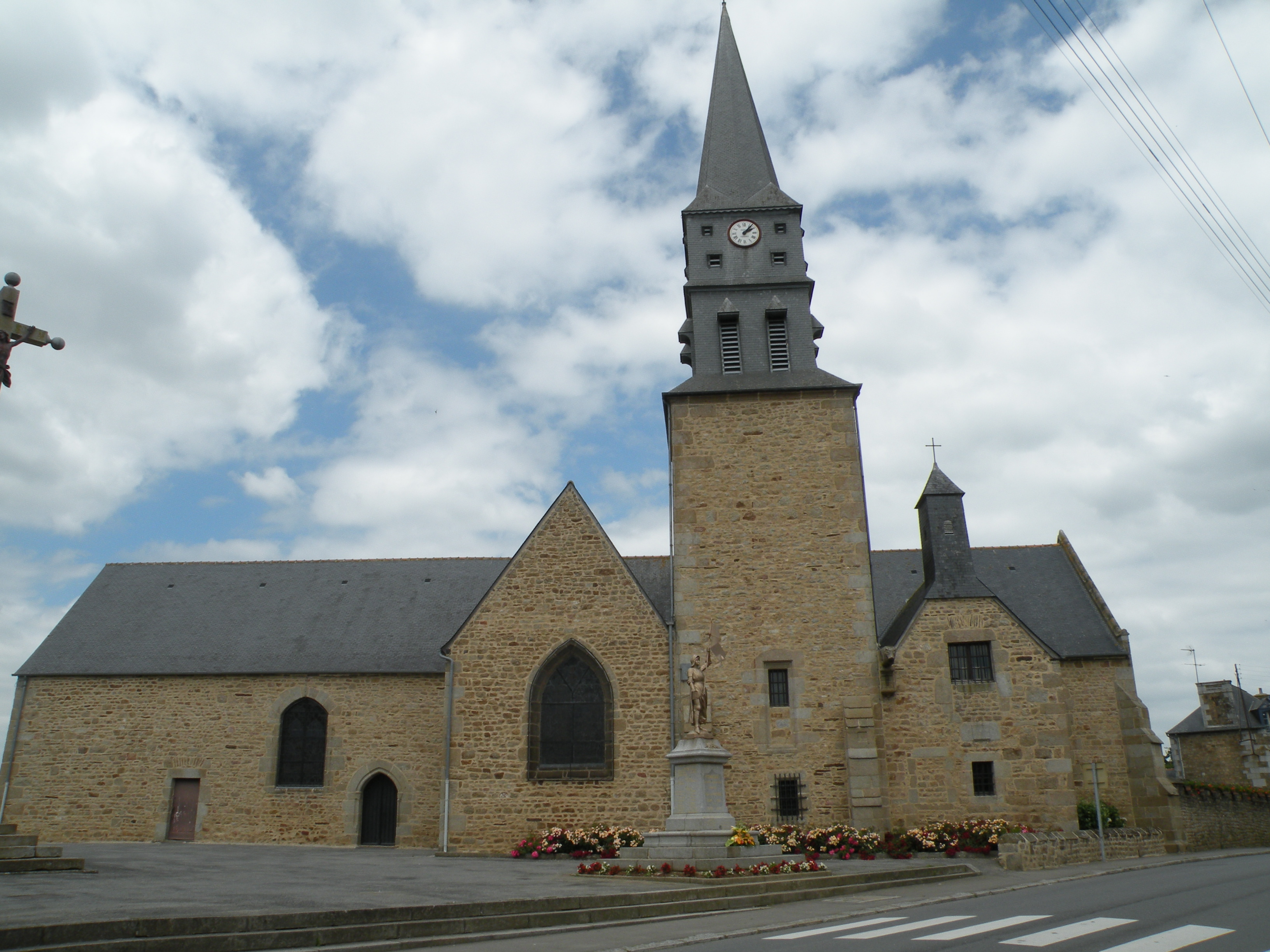 Church of Romagné.